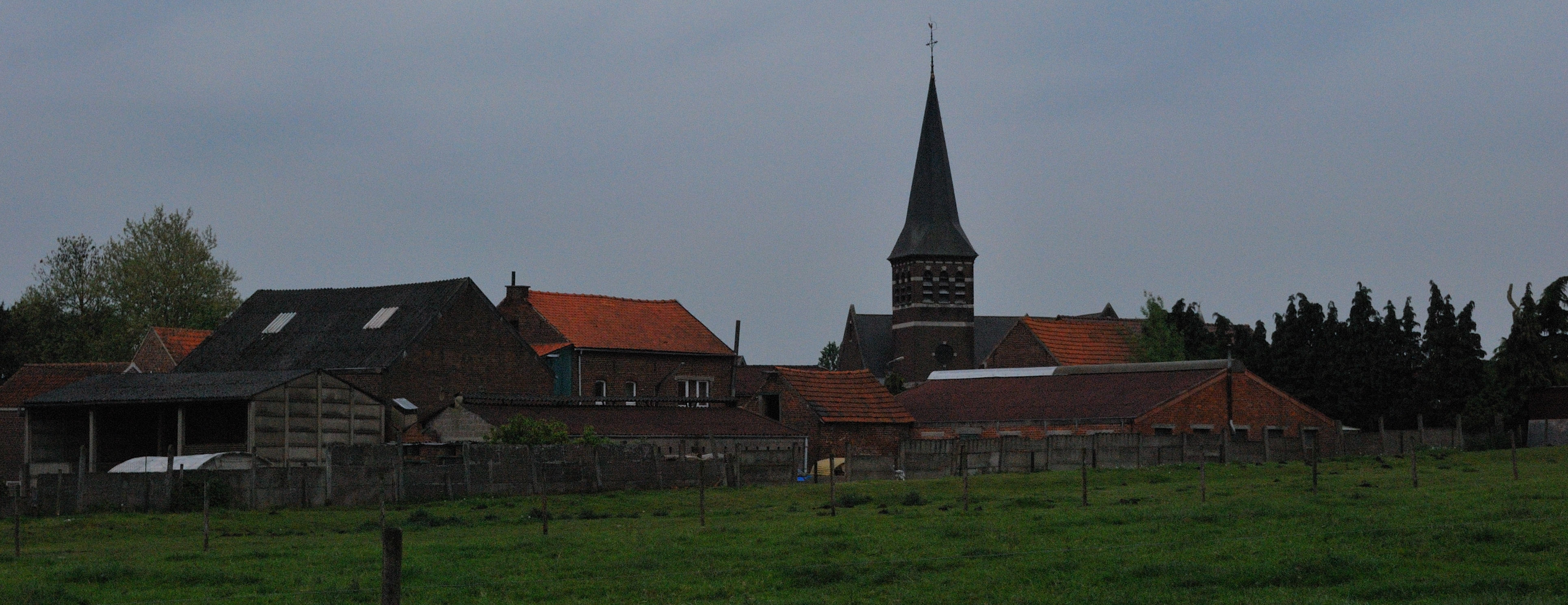 View of the village of Glabbeek, province of Flemish Brabant, Belgium. Nikon D60 f=36mm f/8 at 1/250s ISO 800. Processed using Nikon ViewNX 1.5.2 and Gimp 2.6.6.